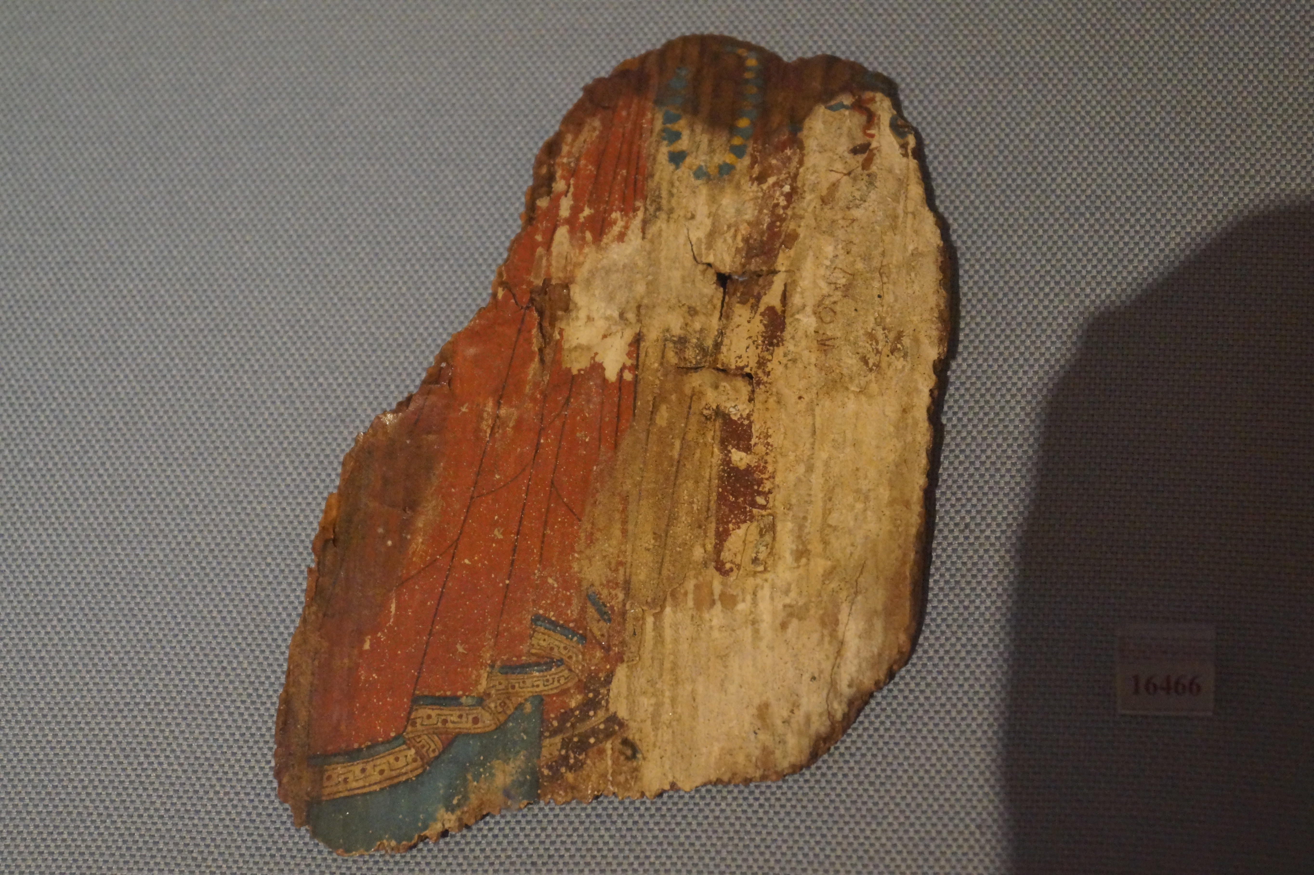 National Archaeological Museum of Athens: Pitsa panel (NAMA 16466)